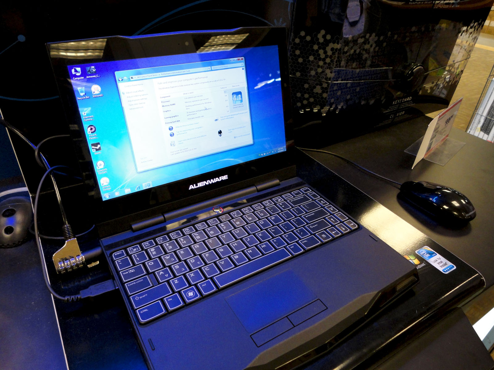 Alienware M11x laptop displayed in a shop.